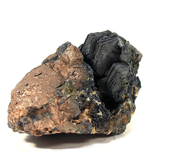 Nickeline Locality: Pöhla-Tellerhäuser Mine, Pöhla, Schwarzenberg District, Erzgebirge, Saxony, Germany (Locality at ) Size: miniature, 4.8 x 3 x 3 cm Nickeline Incredible, sharp crystals of this rare species to almost 2 cm, perfectly preserved and protected inside a natural vug in bismuth and silver-rich matrix! This is a stunning miniature for display, and for significance of the crystals. 4.8 x 3 x 3 cm